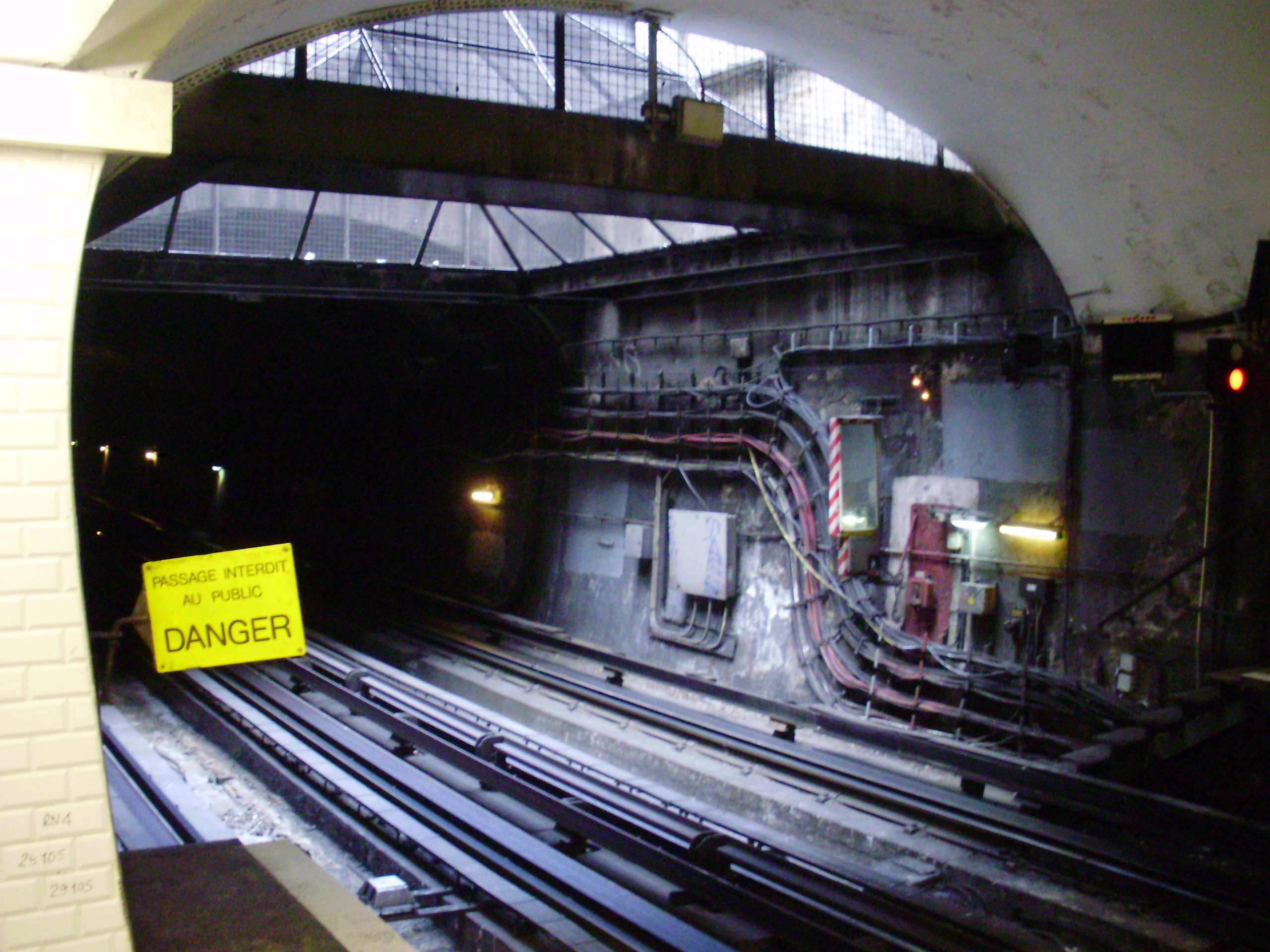 Light shelf at the east extremity of Saint-Paul metro station (line 1) of Paris Métro